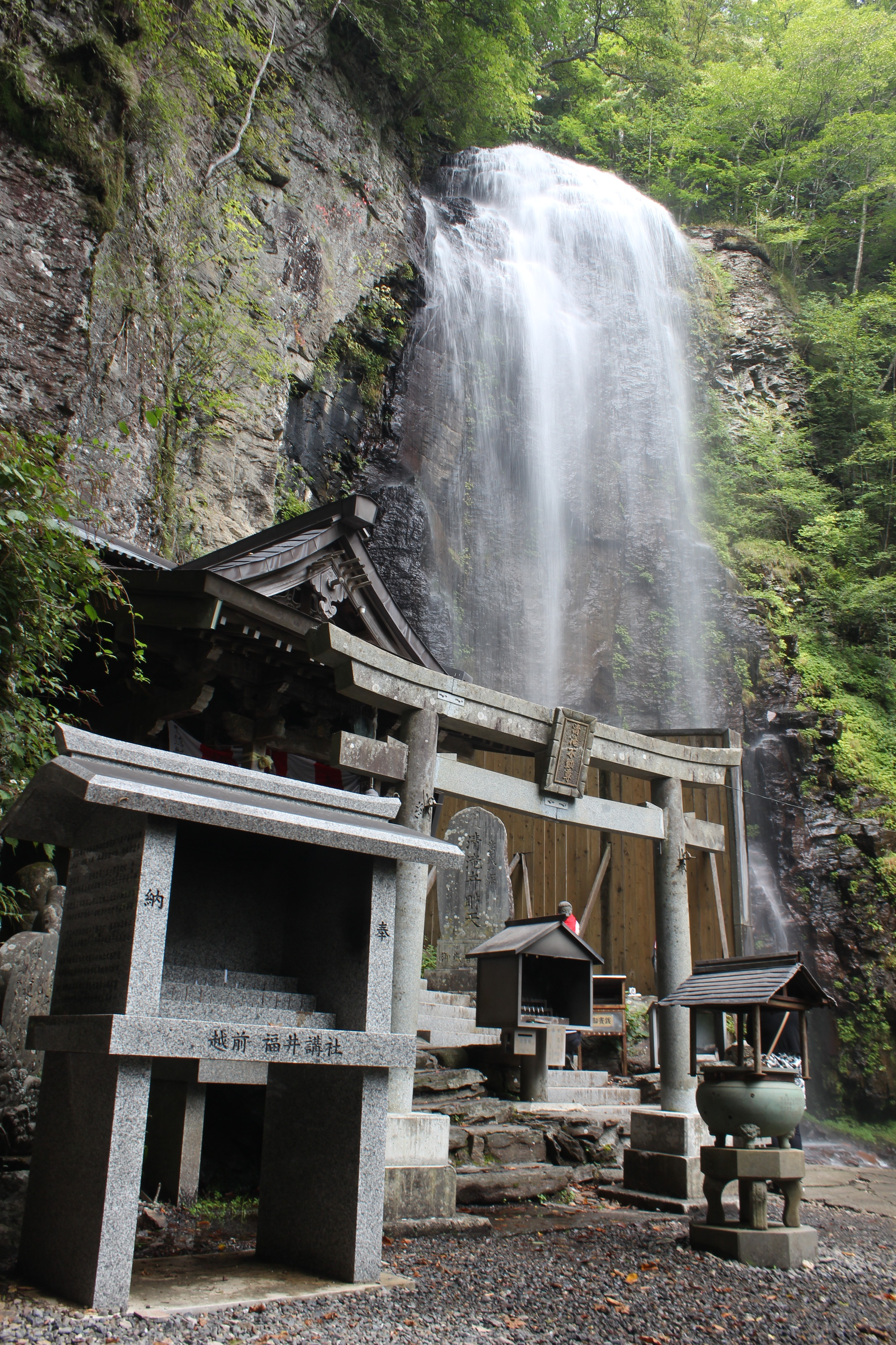 Waterfall, Kiyotai in Mount Ontake, Otaki, Nagano prefecture, Japan.